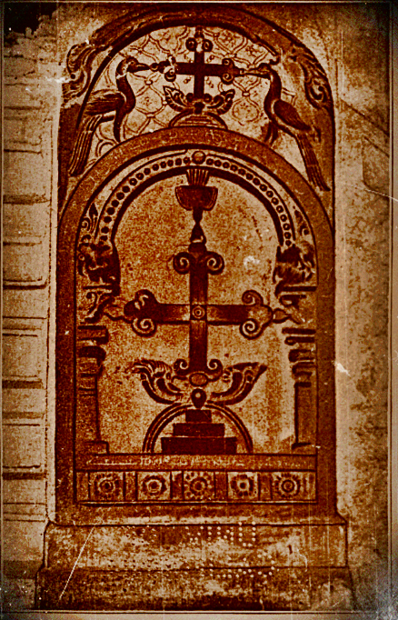 Famous Persian cross @Kottayam Knanaya Valiya pally probably from 10th century CE. Photo taken from "The Syrian Church in India" by Rae, G. Milne (George Milne) published in 1892